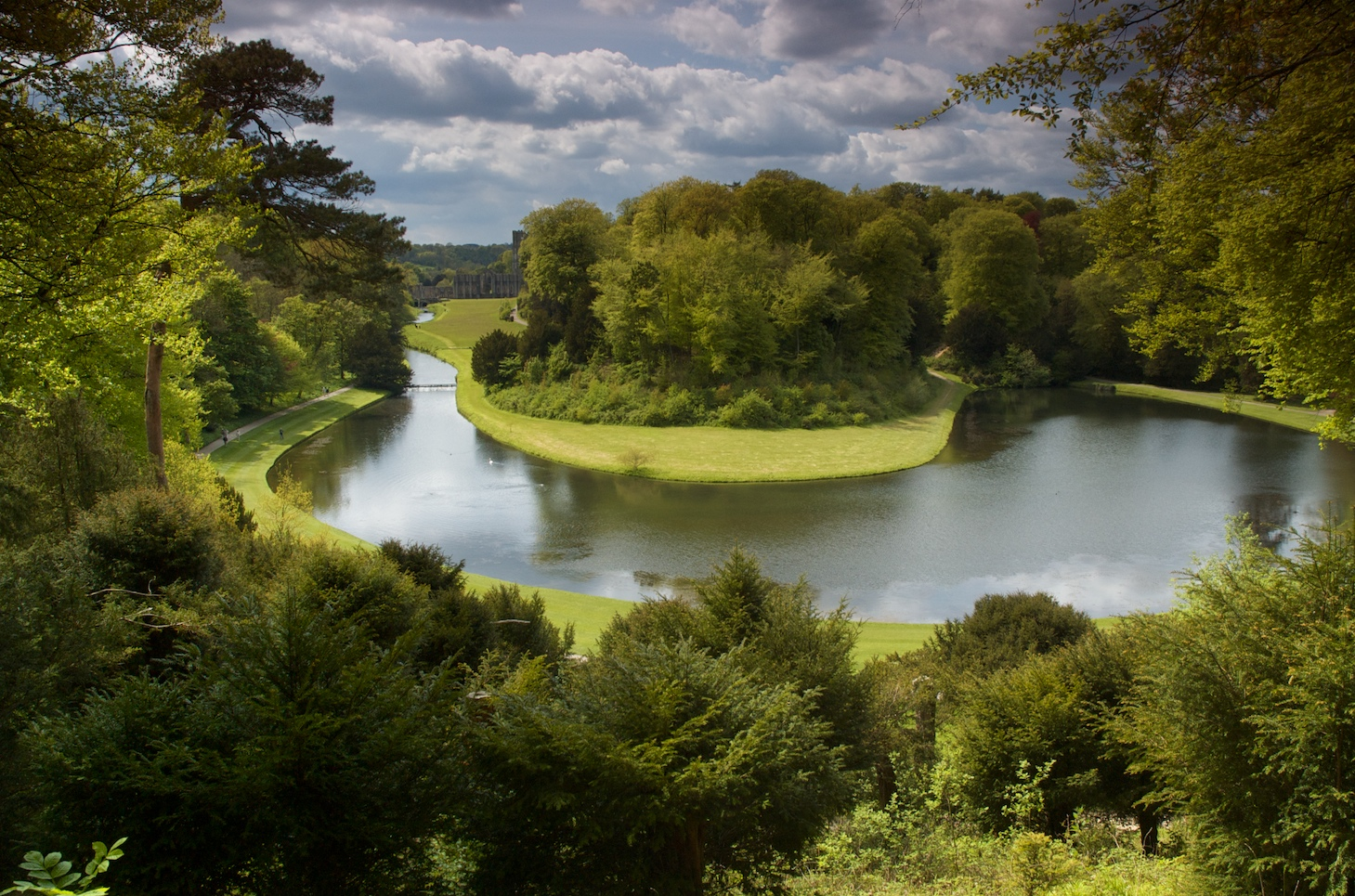 Studley Royal Park, Ripon: Fountains Abbey is shown in the background.